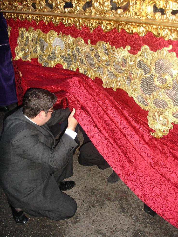 capataz at Holy Week in Seville